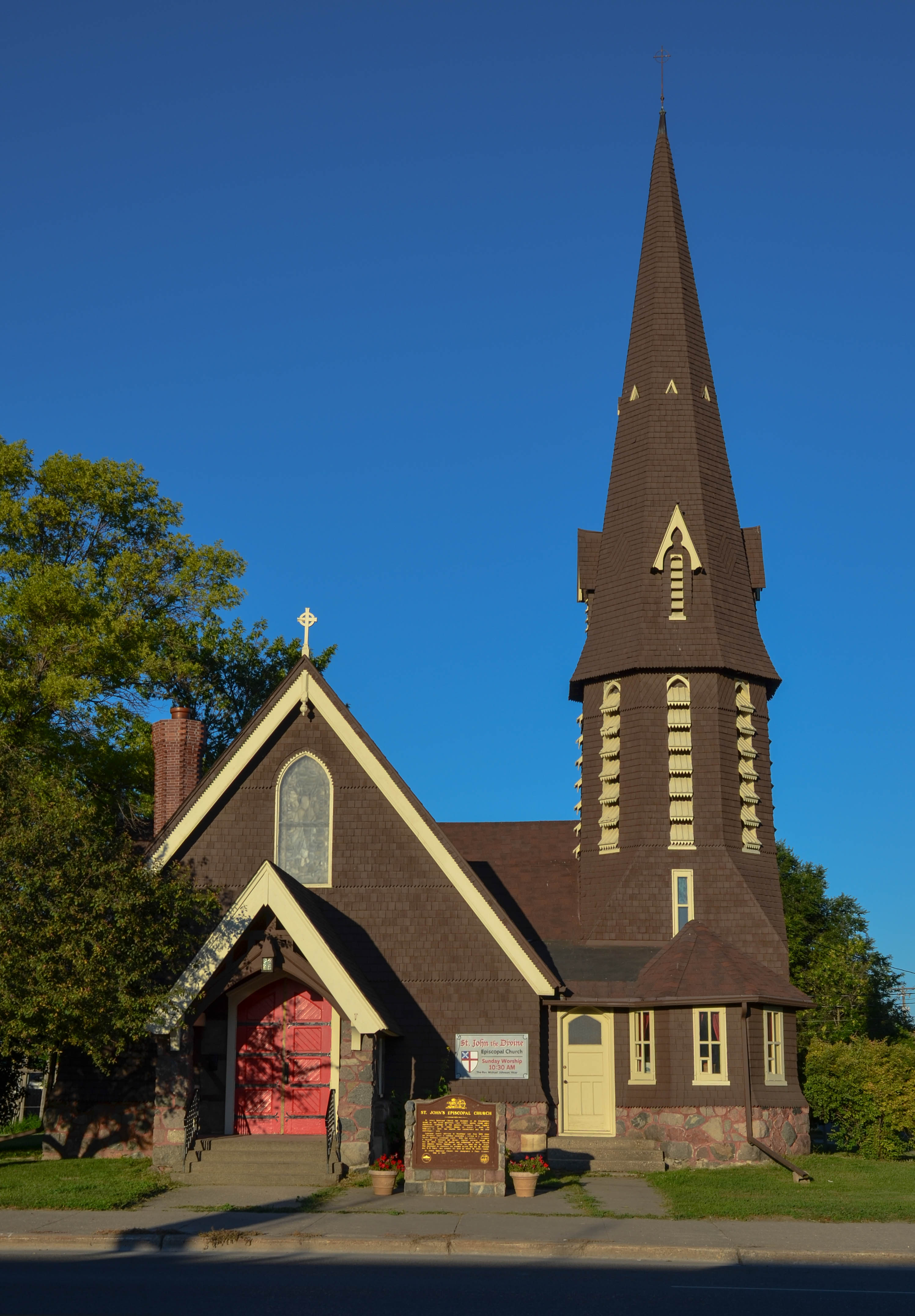 St. John the Divine Episcopal Church, 120 S. 8th St. Moorhead